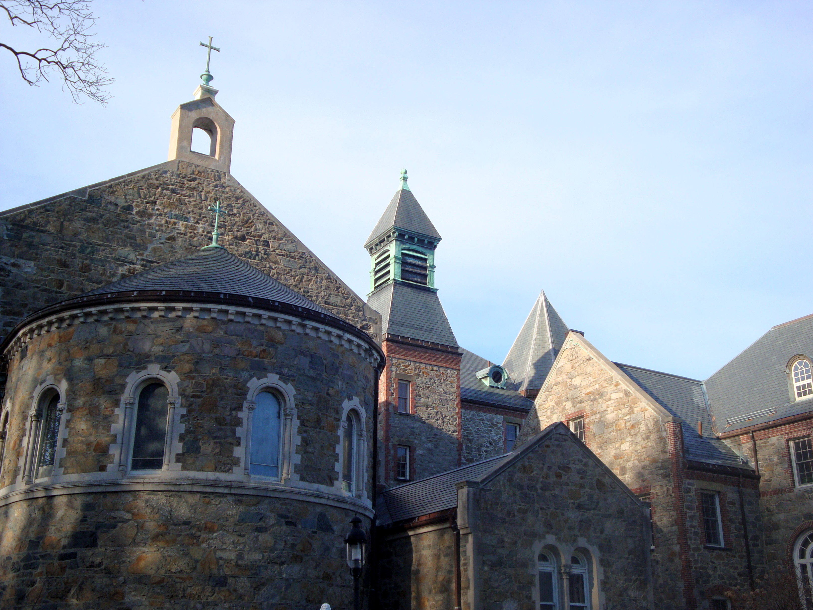 Exterior of St. John's Seminary in Brighton.